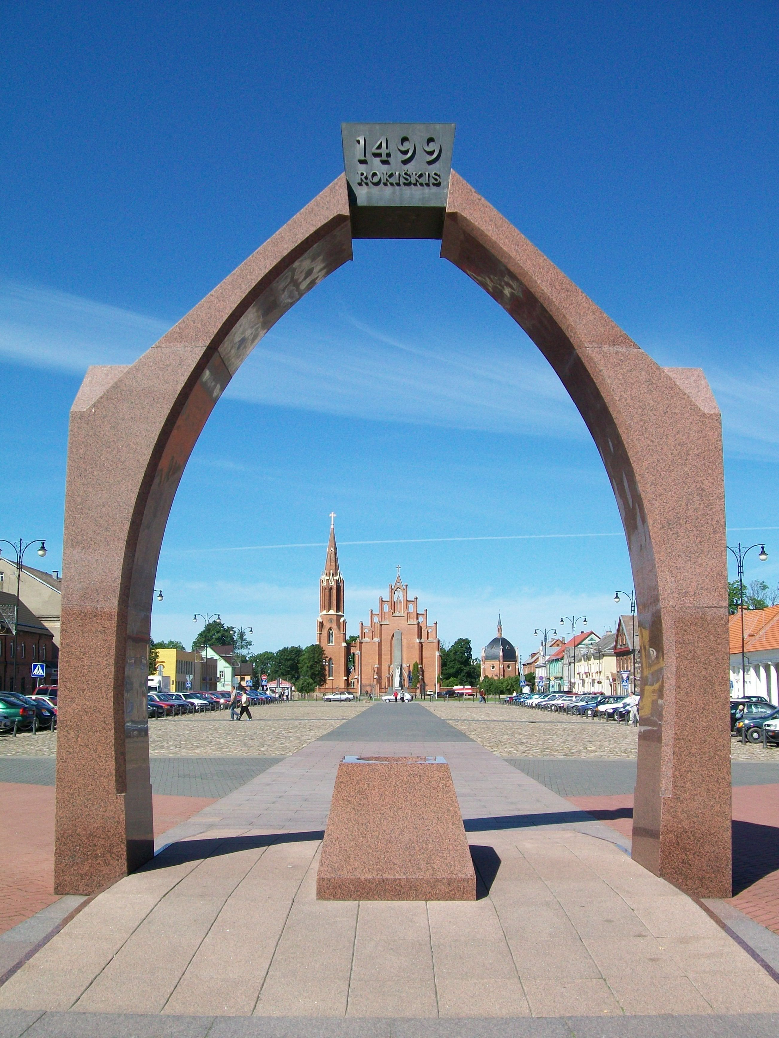 Main square in Rokiškis, Lithuania, with church in the background - OpenStreetMap(Info)